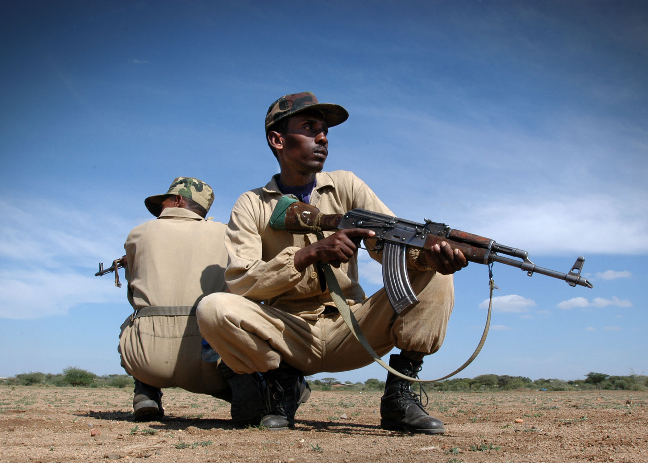 Ethiopian National Defense Force Corporal Melaku Shebabaw, right, stands perimeter watch during Combined Joint Task Force - Horn of Africa's train the trainer course in Hurso, Ethiopia, December 27, 2006. The course teaches students how to train others in their nation's military to increase their nation's capability to protect its borders and ports. (U.S. Navy photo by Chief Mass Communication Specialist Eric A. Clement) (Released) (Released to Public) Location: HURSO, ETHIOPIA AFRICA 3